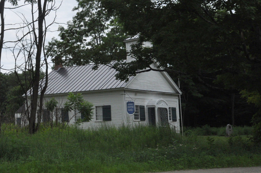 Bayley Historic District, Newbury, Vermont. DAR Hall, a former school.